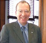 New Zealand Ambassador to the United States, Roy Ferguson, cropped from photo receiving key to City of San Diego. Per Copyright notice "Unless a copyright is indicated, information on the City of San Diego Web site is in the public domain and may be reproduced, published or otherwise used with the City of San Diego's permission. We request only that the City of San Diego be cited as the source of the information and that any photo credits, graphics or byline be similarly credited to the photographer, author or City of San Diego, as appropriate."